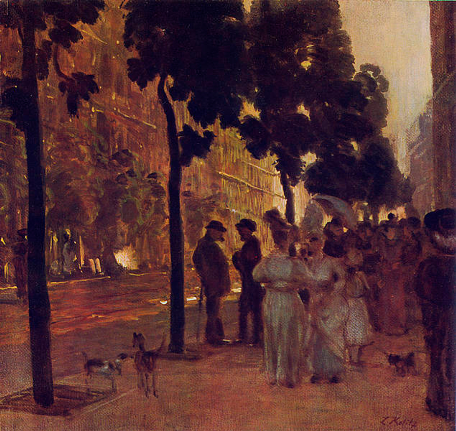 Kassel: Hohenzollernstrasse (today's Friedrich-Ebert-Straße (Kassel))